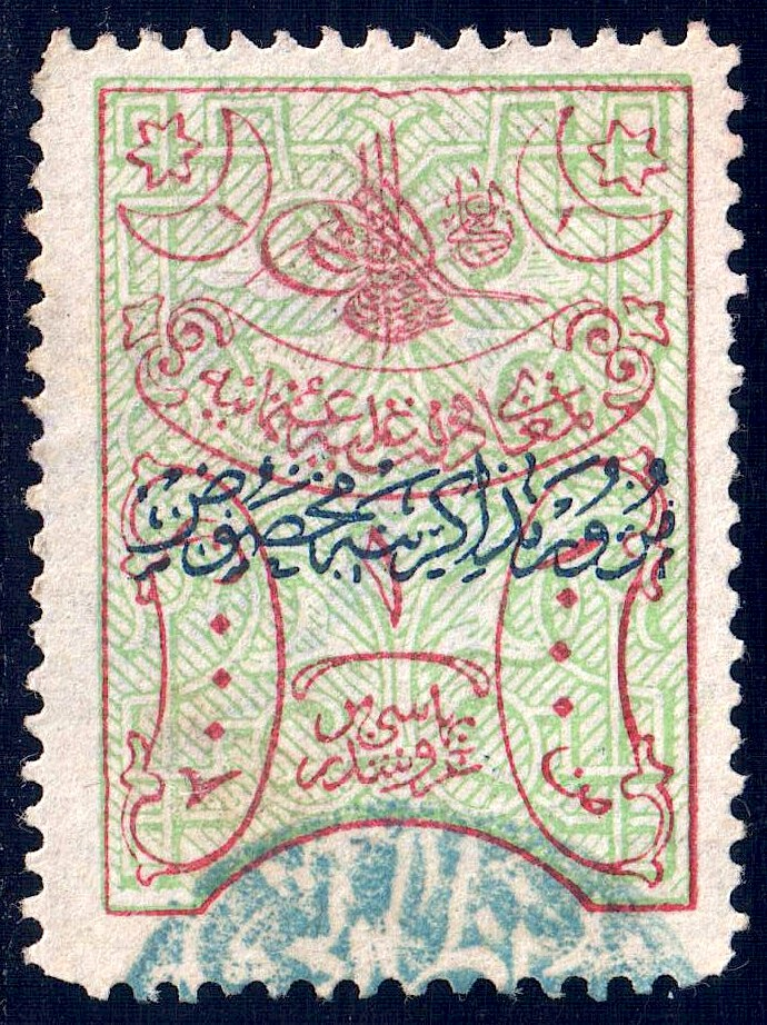 Turkey 1890, tughra Abdul Hamid II, 1 piaster red and green, overprinted (For Transit License) proportional fee revenue of 1878-79 for travel permits, used.[1] Catalogue: Sul. 5206